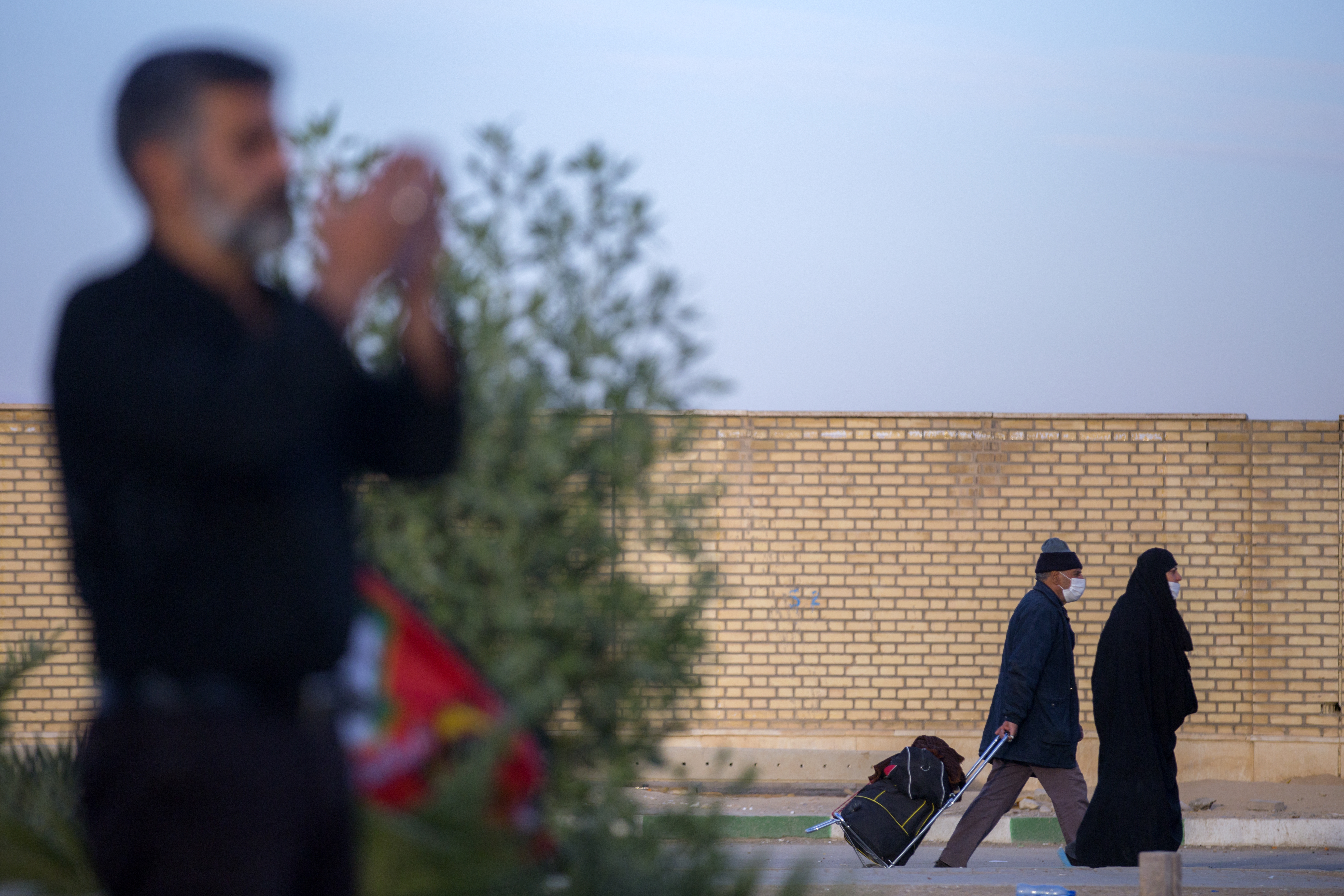 The Arba'een Pilgrimage is the world's largest public gathering that is held every year in Iraq. This Ziyarah (pilgrimage) is held at the end of the 40-day mourning period following Ashura, the religious ritual for the commemoration of the Prophet Mohammad's grandson Husayn ibn Ali's martyrdom in 680.